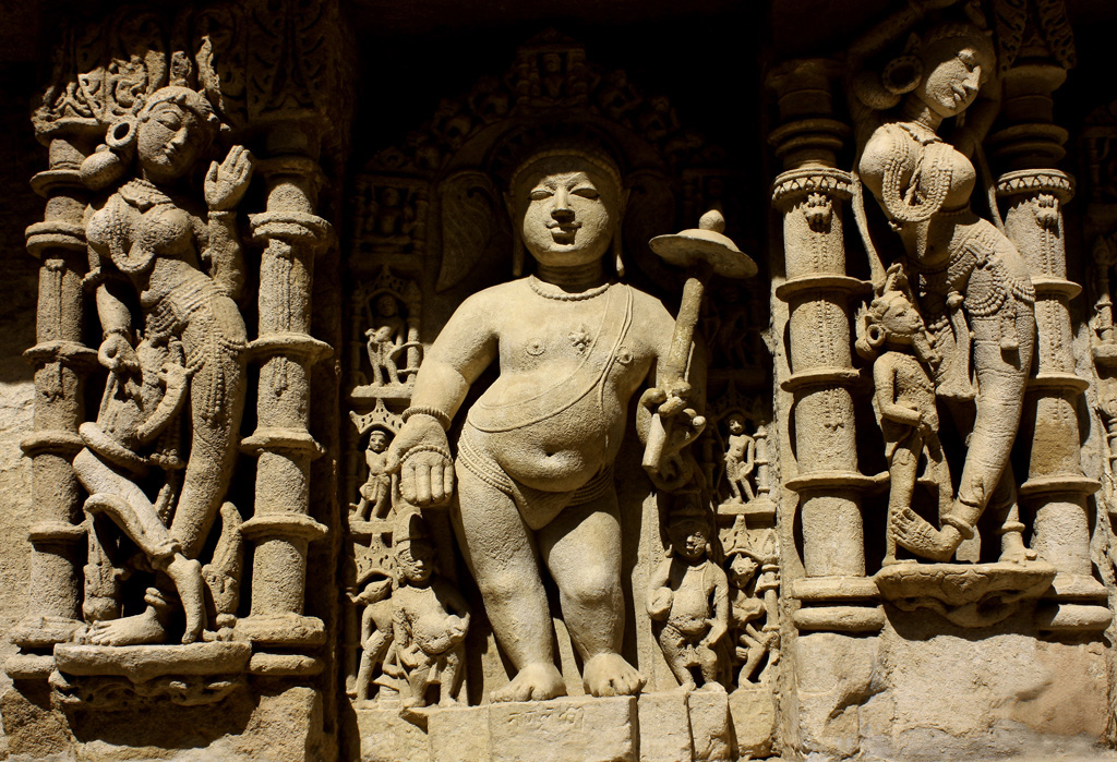 I think this depicts the Vamana Avatar of Vishnu where he manifests himself as a dwarf brahmin. Do correct me if I am wrong. A photo from the archives. Taken at Rani ki Vav, Patan, Gujarat.